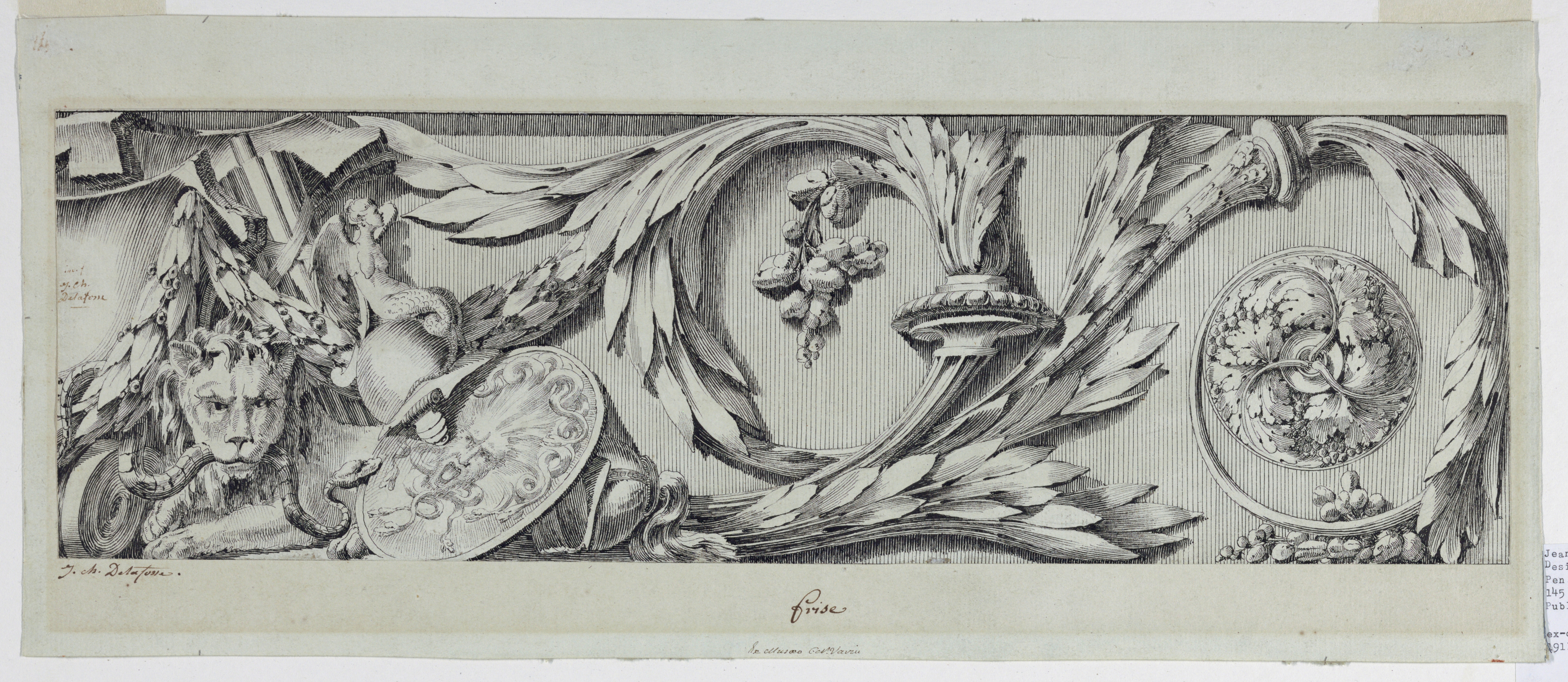 The right half is shown; rinceau flanking the central motif, of which half is an escutcheon; a crouching lion biting a snake which in turn bites a child, forms a part of a trophy of arms.